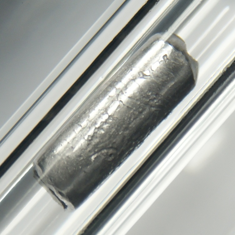 Thallium is a metal which is very similar to lead, but is much more toxic and rare than this. Therefore it is used scarcely and only in amounts as small as possible. One application is for special glass. In nature, its toxicity normally is irrelevant, because it naturally only occurs in very low concentrations. But when it is deployed intensively, like it is done where thallium sulfate is used as a rat poison, it causes big environmental damage.